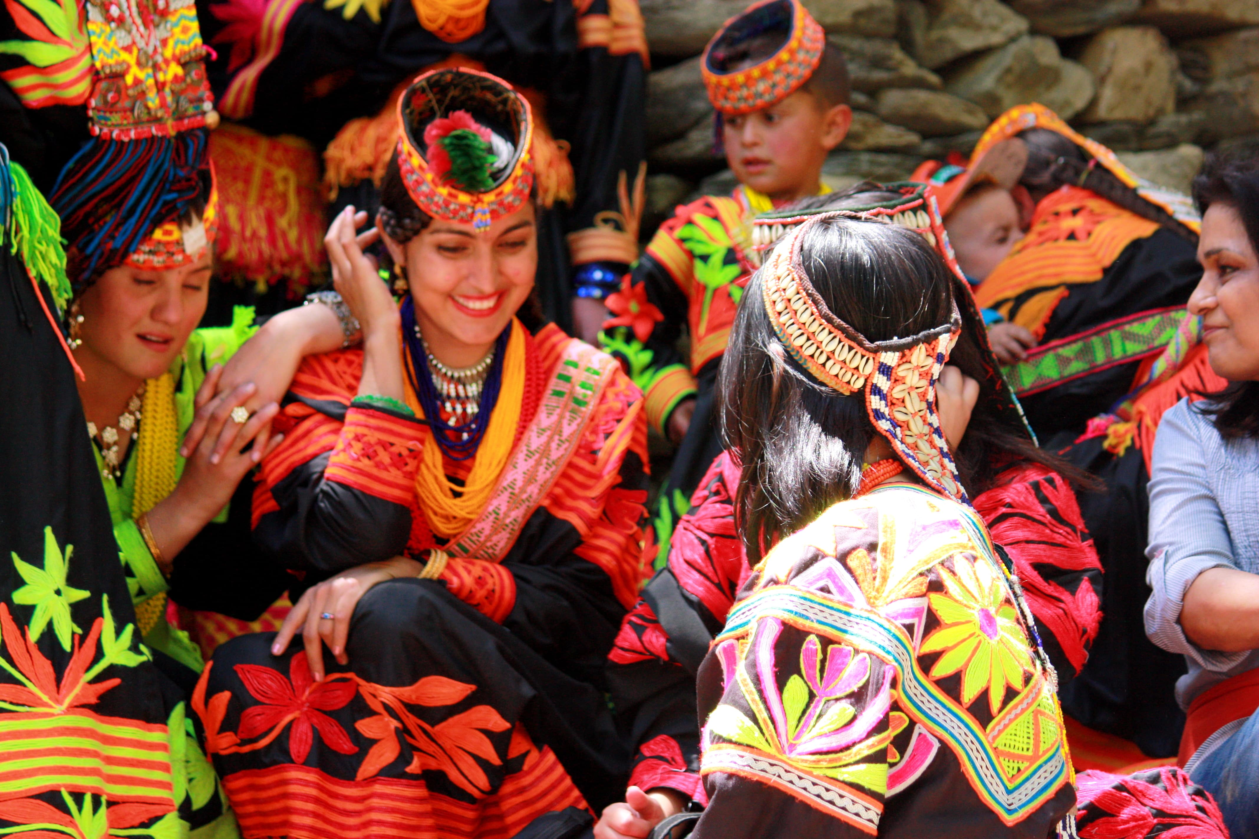 Kalash festival is celebrated by the Kalasha people. Kalasha people lives in the Kalash valley of Pakistan. Kalash valley is surrounded by the Hindu Kush mountain range. Kalash festival takes place three times a year, spring, summer and in the winter. Spring festival called Chilam Joshi festival which starts around 13 of May. Summer festival called Uchal festival, which starts on 20 August. Winter festival is called Choimus Festival, which starts on 15 December. During the festival, people not only drink, dance and have fun in general but they also worship their Gods and spirits, giving offerings and even sacrifices. Also, during this festival young men and women choose their future husbands and wives This photo has been taken in the country: Pakistan